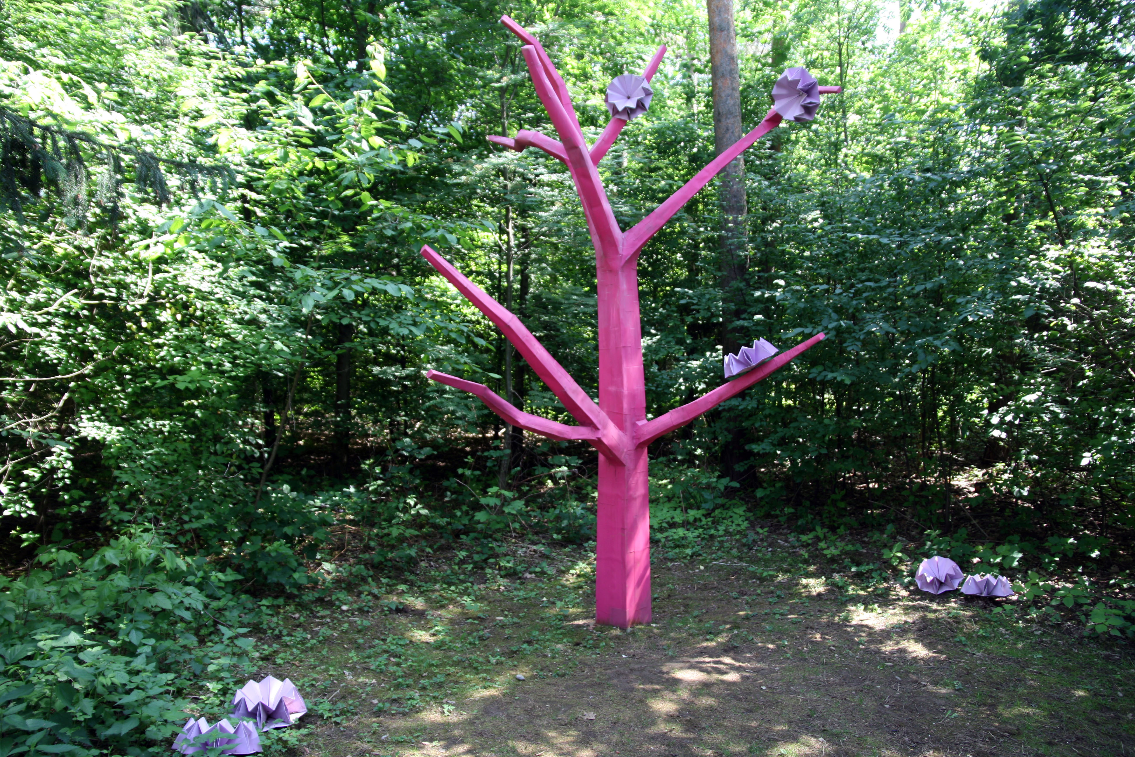 "Asoziale Tochter" - sculpture (2004) by German artist Tobias Rehberger, Austrian Sculpture Garden, Unterpremstätten near Graz, Styria, Austria.